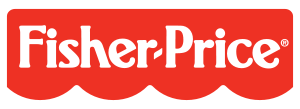 This is the official logo of Fisher-Price, a Mattel Company. All the right go to their respective owners, include logos and registred trademarks.